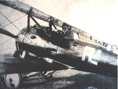 Fritz Beckhardt was from Wallertheim in Hesse. At the start of the war he volunteered for the infantry and later trained as a pilot in Hamburg and Hanover. He flew long-range reconnaissance missions and later received fighter pilot training and served with Jagdgeschwader 3, Jagdstaffel 26, and Kest 2. During the war Beckhardt received the Iron Cross (First Class), the House Order of Hohenzollern with Swords, the Hessian Medal of Bravery, the Hessian Order of Ernst Ludwig, the aviator’s badge, a silver cup for bravery, and various badges for accomplishments and wounds. After Germany lost the war, Beckhardt refused to deliver his plane over to the enemy and instead flew it to Switzerland. Beckhardt flew a Siemens Schuckert fighter with a swastika on it. Pilots on both sides flew planes adorned with swastikas, an ancient symbol that at the time of World War I still represented the sun, or good luck, or just an interesting image.